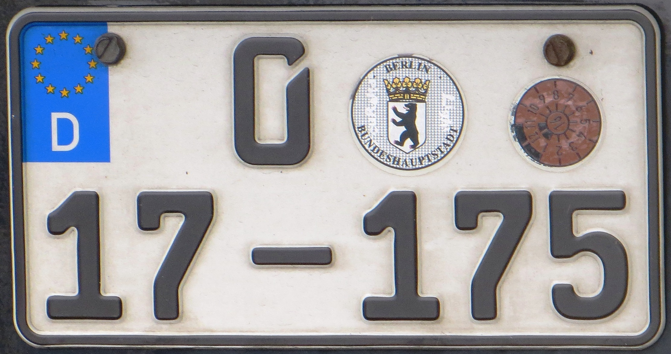 German diplomatic license plate, 0 = Diplomatic Corps, 17 = USA